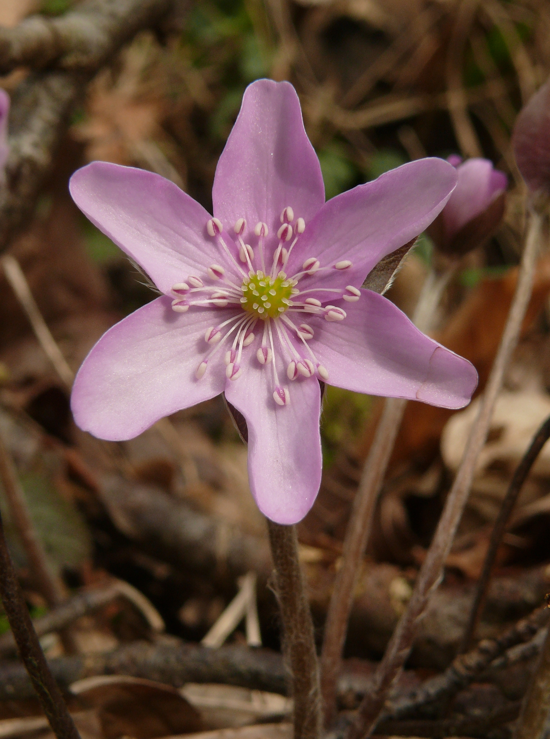 Hepatica nobilis, Hohenlohe, Germany